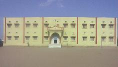 Solar International School's Building situated at Sanchore in Rajasthan, India